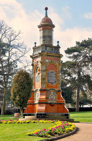 Monument to Richard Eve (1831-1900) in Brinton Park in Kidderminster